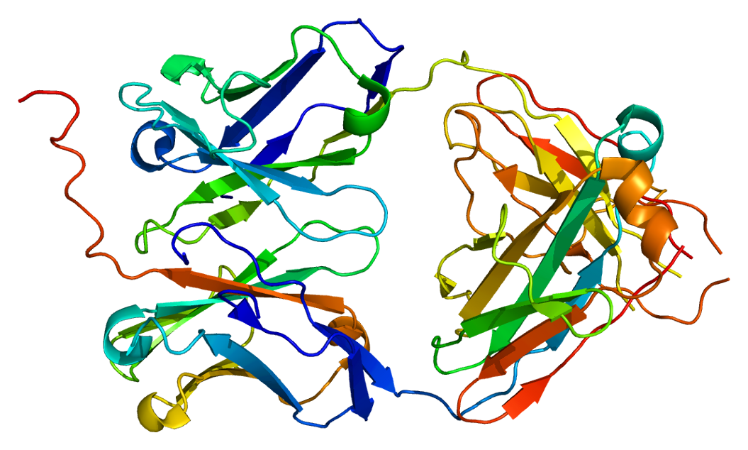 Structure of the pre-B cell receptor. Based on PyMOL rendering of PDB 2h32.